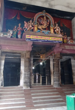 Tirubuvanam Kampahareswarar Templeதிருபுவனம் கம்பகரேஸ்வரர் கோயில்